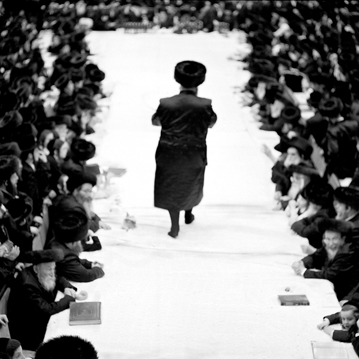 B&W Photograph